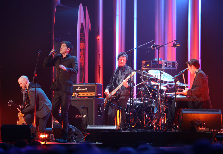 Nobel Peace Prize Concert 2008, The Script